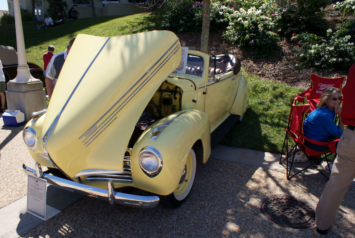 Hudson Six 1940 Model 40P Convertible - SONY DSC